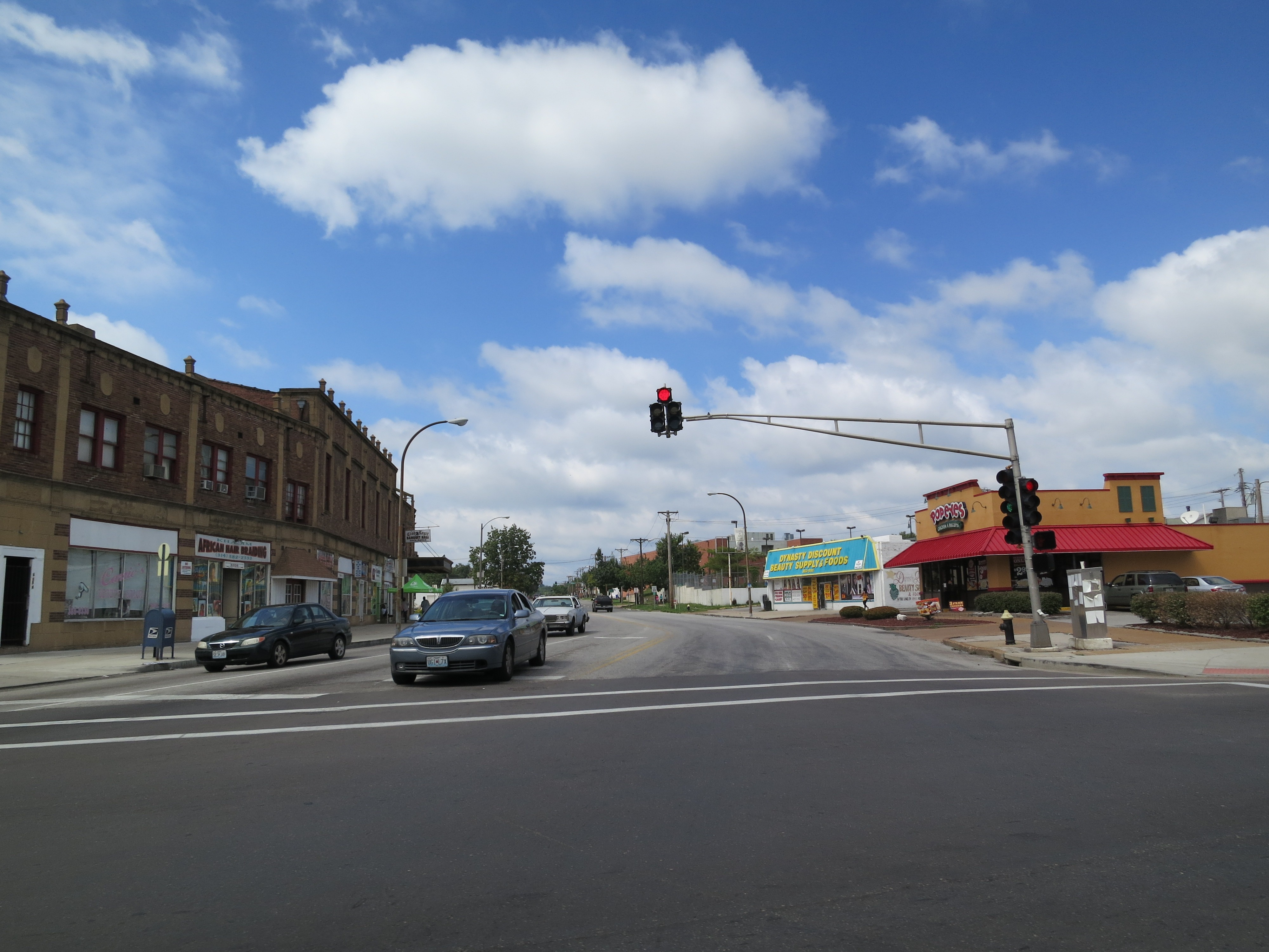 Dynasty Discount Beauty Supply & Foods